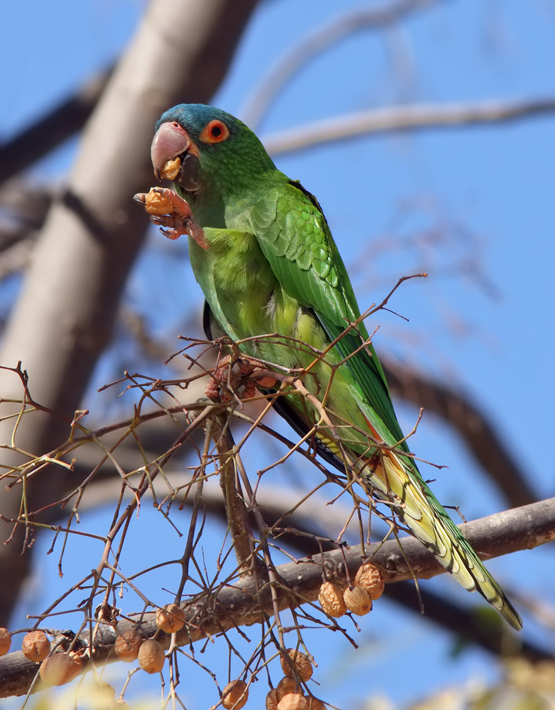 Blue-crowned Parakeet (also known as Blue-crowned Conure and Sharp-tailed Conure) in the square of the small village of San Isidro, Santa Cruz dept, Bolivia.